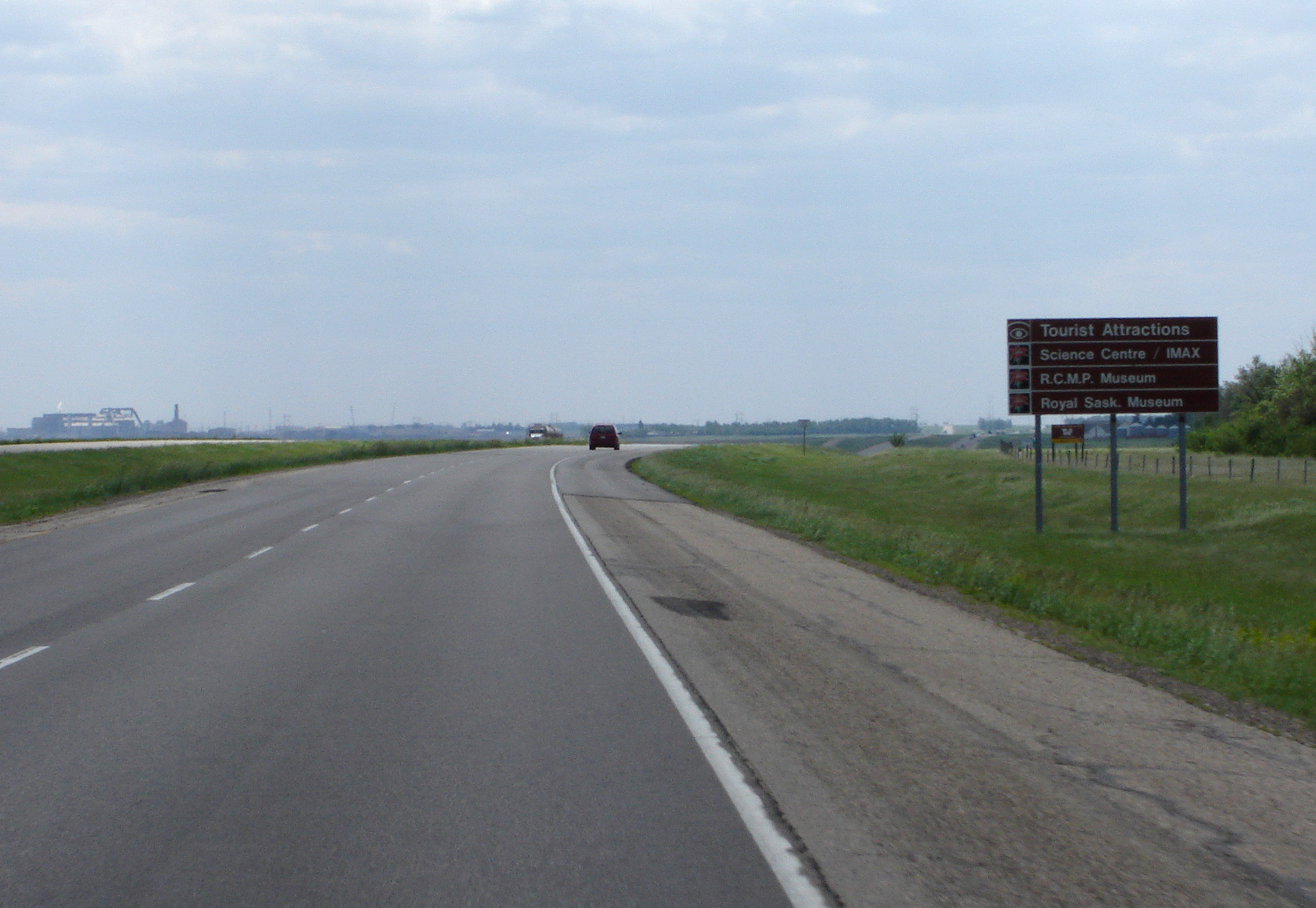 Tourist Attractions - Science Centre IMAX, R.C.M.P. Museum, Royal Sask. Museum Road Signage Photo taken from Saskatchewan Highway 11, Louis Riel Trail travelling south from Saskatoon to Regina